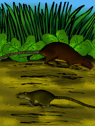 Comparison of the giant Antillean rice rats "Ekbletomys hypenemus" (larger), and Megalomys audreyae, of Pleistocene to Holocene Antigua and Barbuda